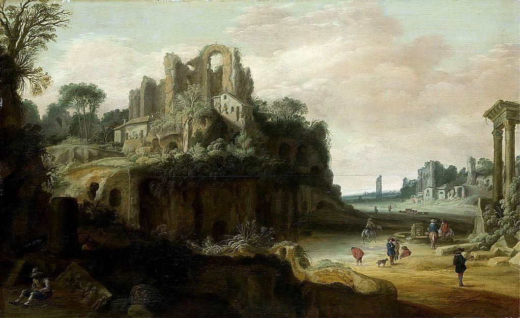 Romeins landschap met links de Palatinus en rechts gedeelten van het Forum Romanum